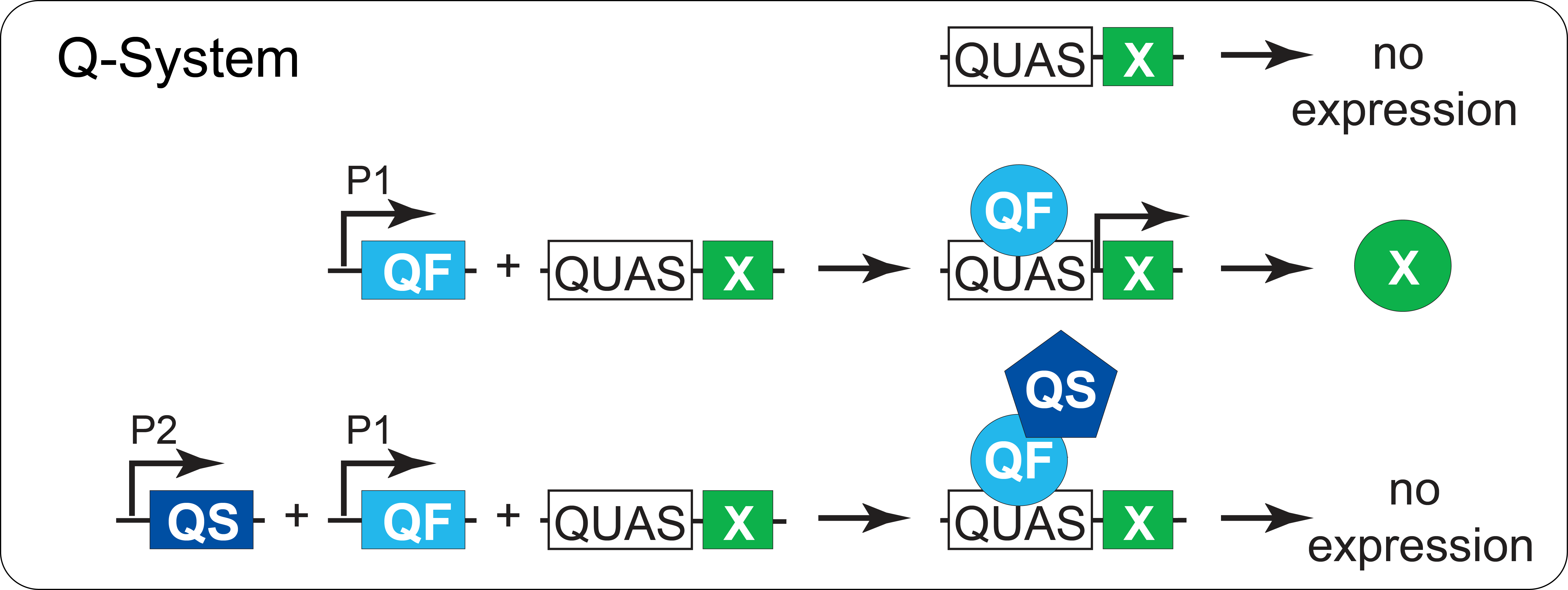 The 3 components of the repressible Q-system of binary expression. QF (or QF2) is a transcription factor that binds and induces the expression of QUAS-geneX effectors. The activity of QF is inhibited by the transcriptional suppressor QS.